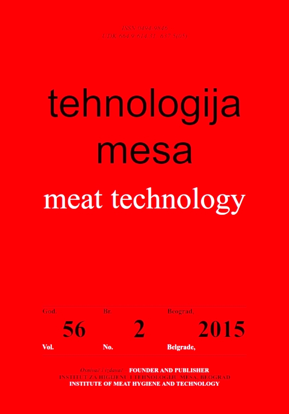 Cover page of the journal "Meat Technology"